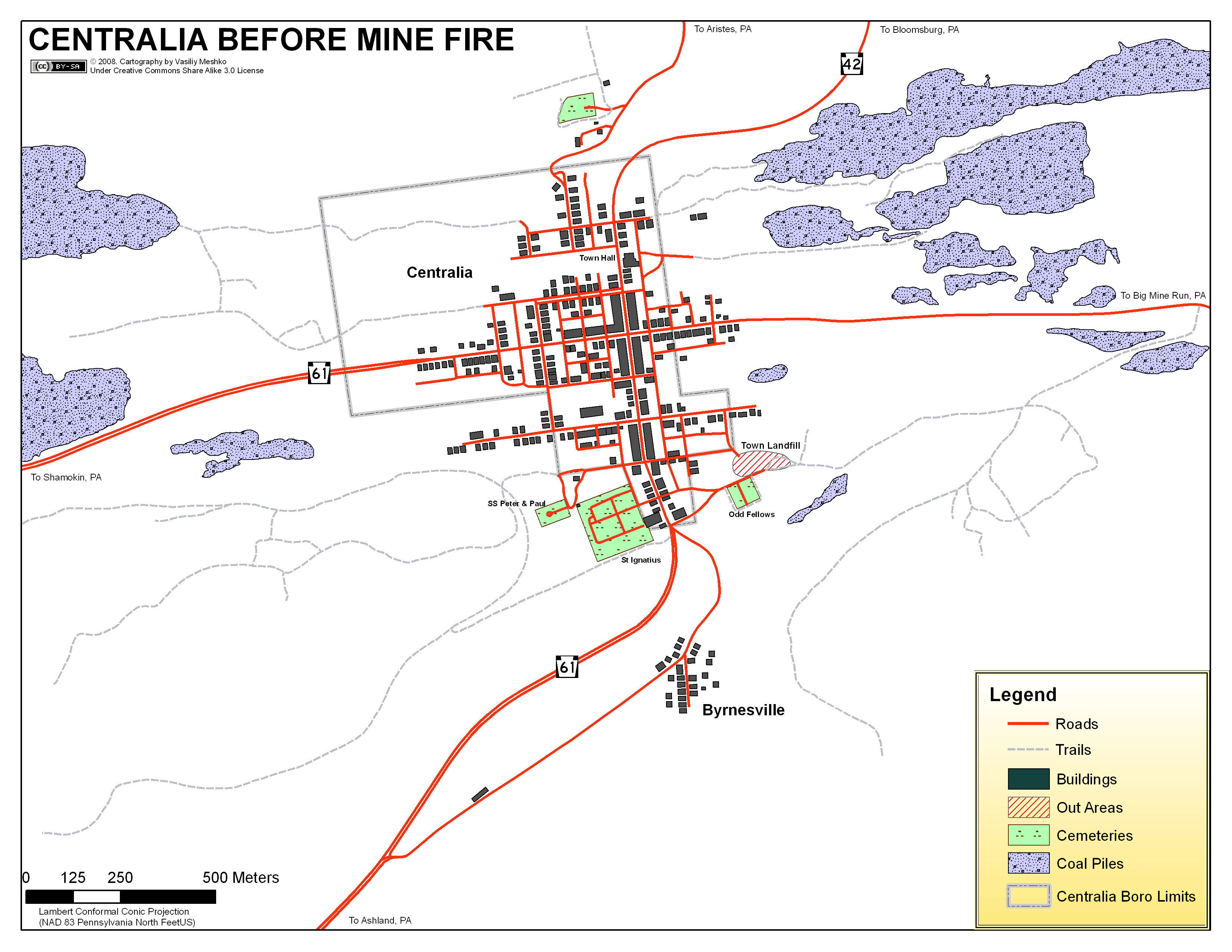 Map of Centralia area showing conditions before mine fire.